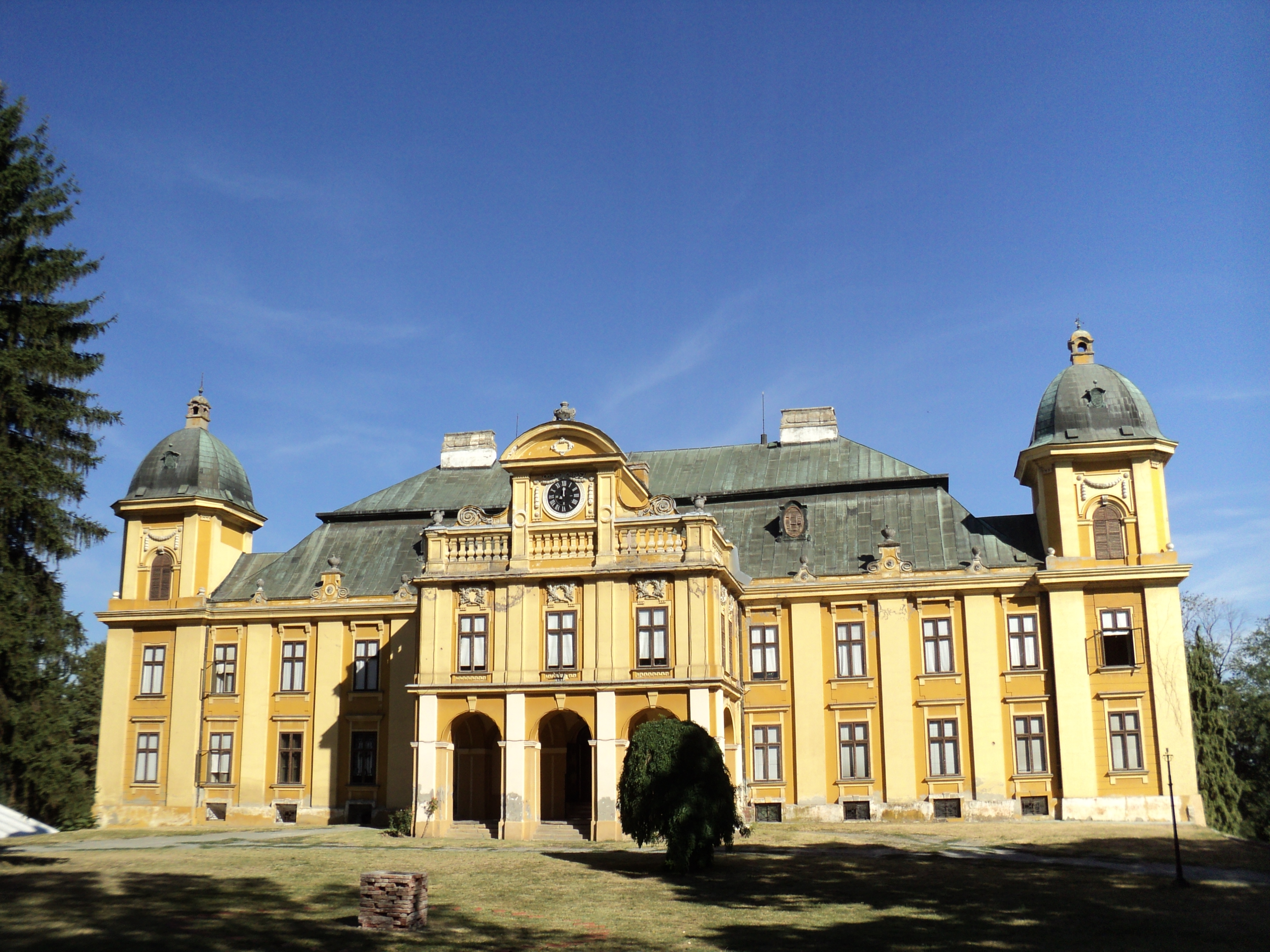 Pejačević castle in Našice.